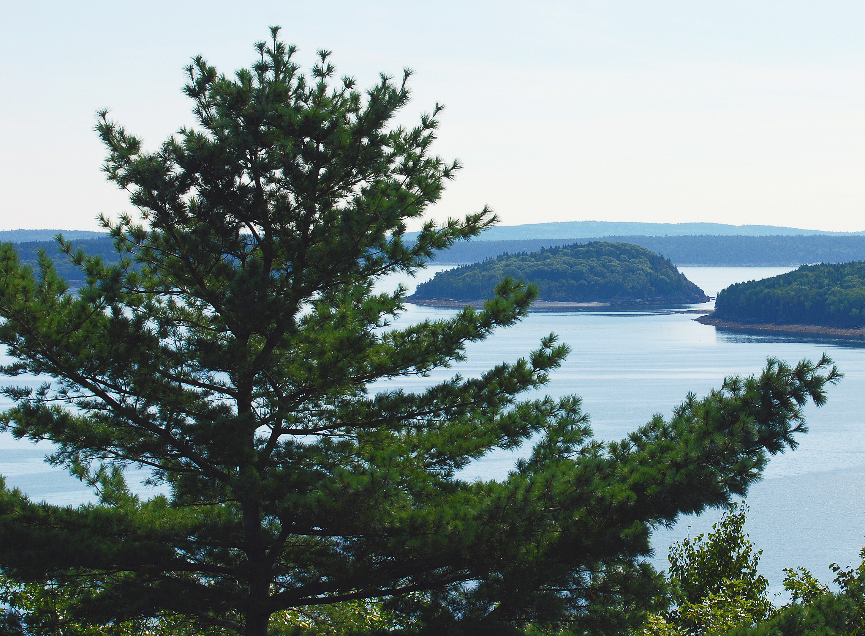 Pinus strobus, from the Park Loop Road looking towards the Porcupine Islands, Acadia National Park, Maine, USA.